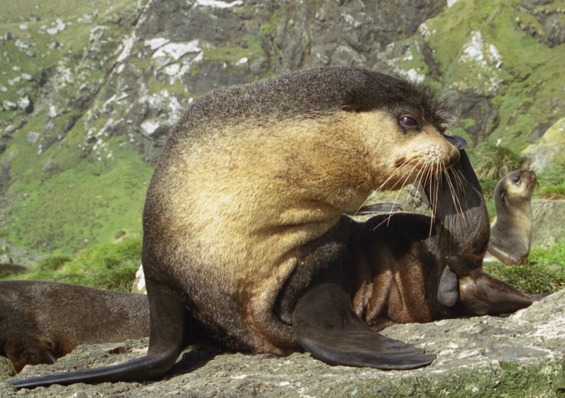 This picture was taken in Possession Island (Crozet Archipelago) at the site named "the elephant seal pool". This picture was taken in december 2002 by Nicolas Servera. You can see a male of the subantarctic fur seal (Arctocephalus tropicalis) resting on a rock and scraping his head with his hind leg.